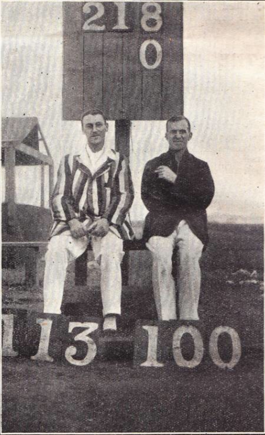 Hodgson made 113* and Jones 100*